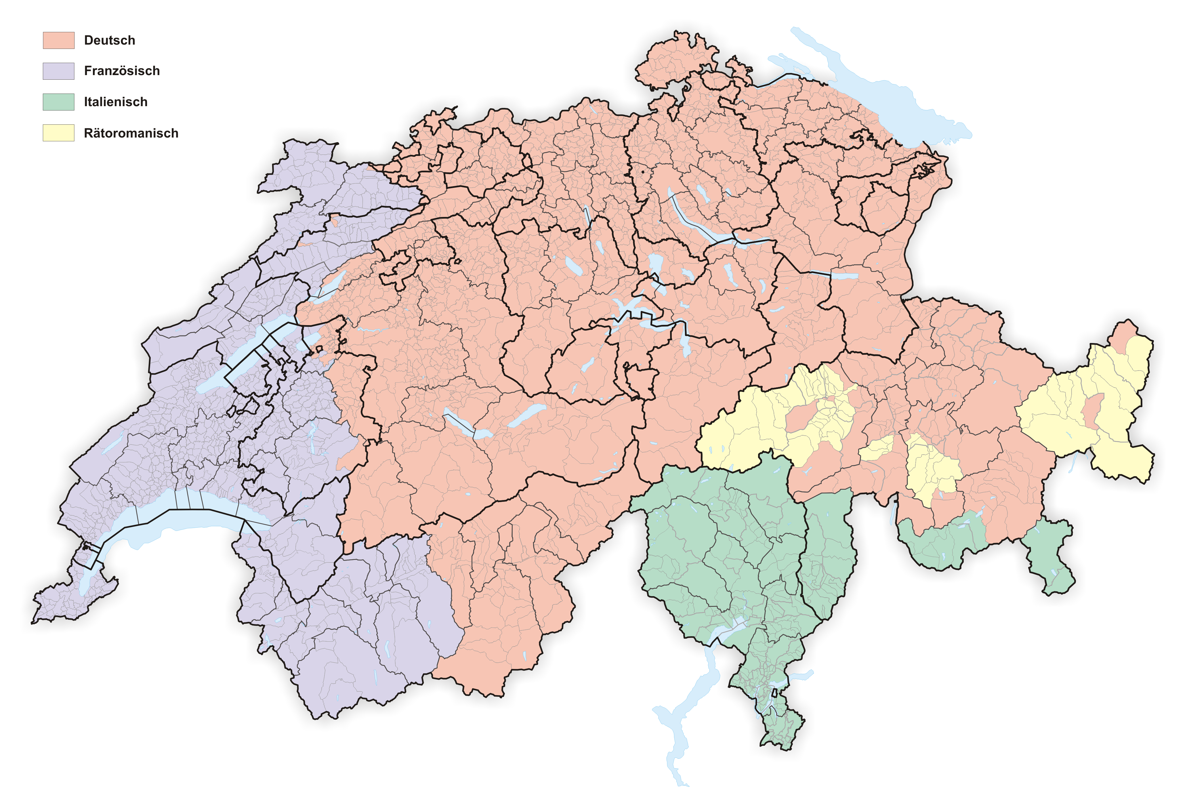 Language areas in Switzerland 2010